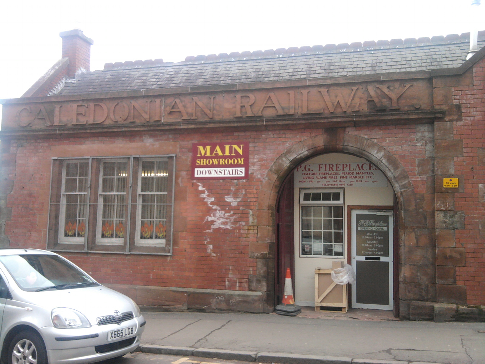 Caledonian Railway name carved in an old building in in Hamilton, Scotland.